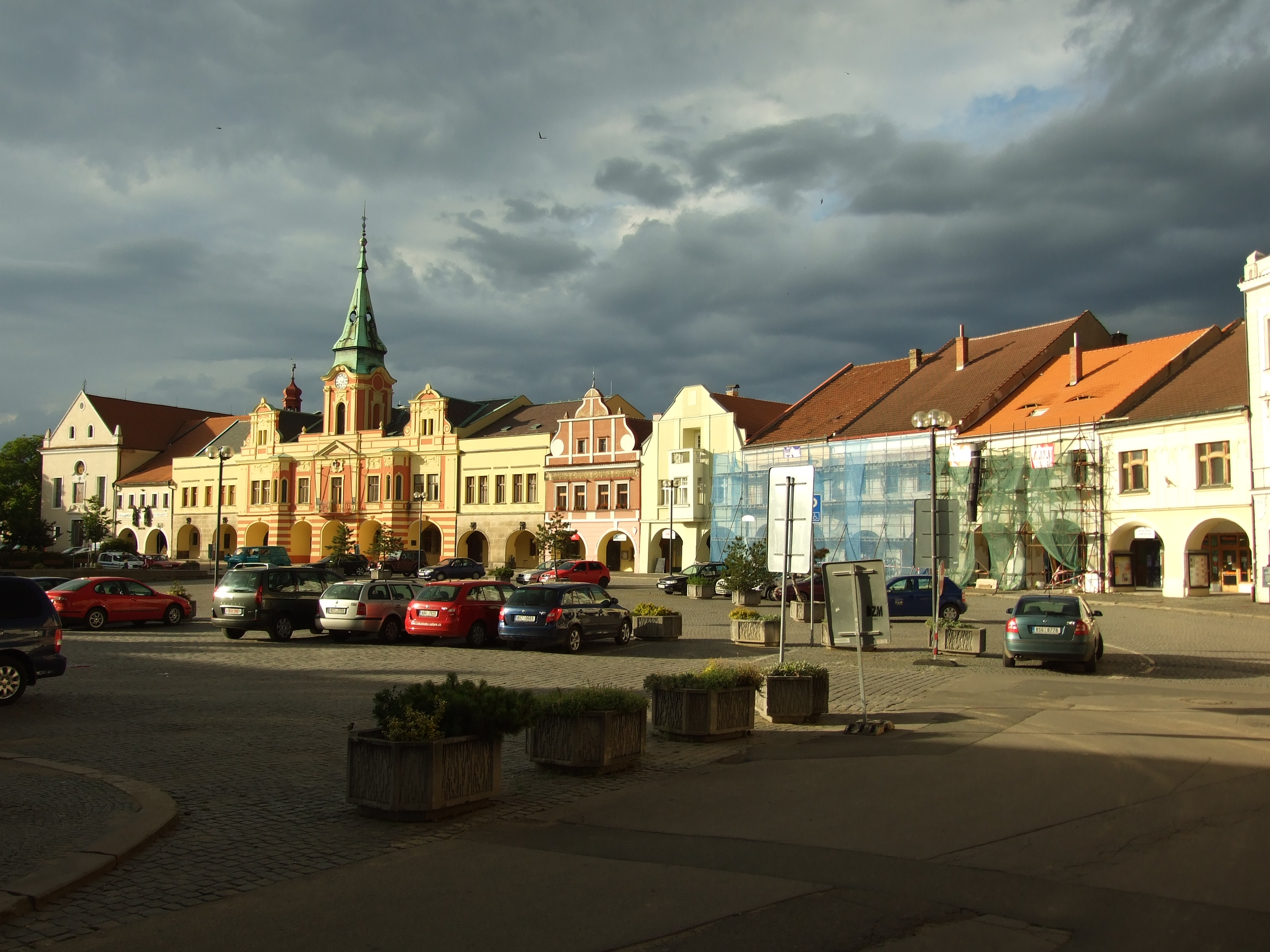 Historic town centre of Mělník, city in Central Bohemian Region, CZhelp